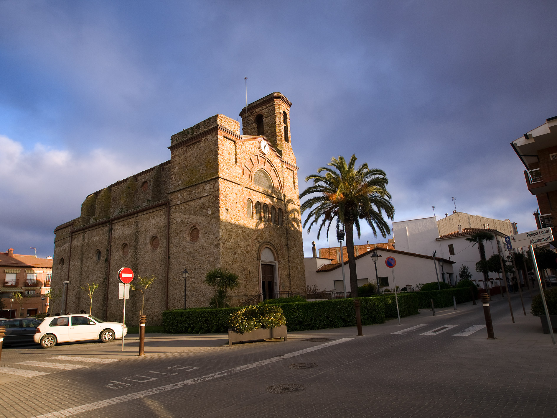 Santa Maria Assumpta church of Palafolls (Catalonia, Spain)